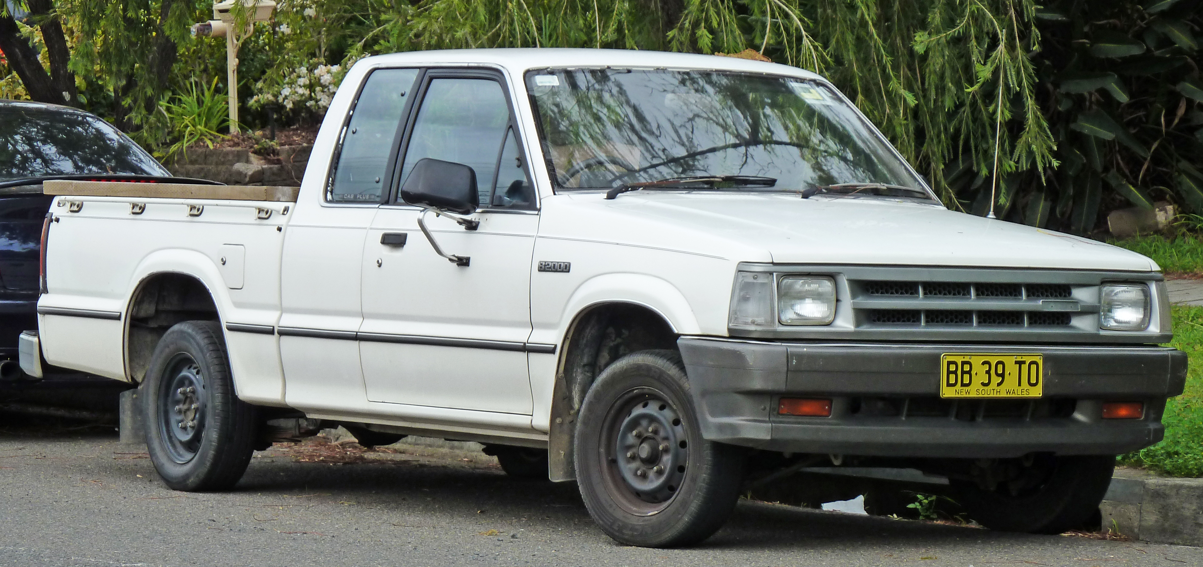 1985 Mazda B2000 Cab Plus 2-door utility. Photographed in Taren Point, New South Wales, Australia.